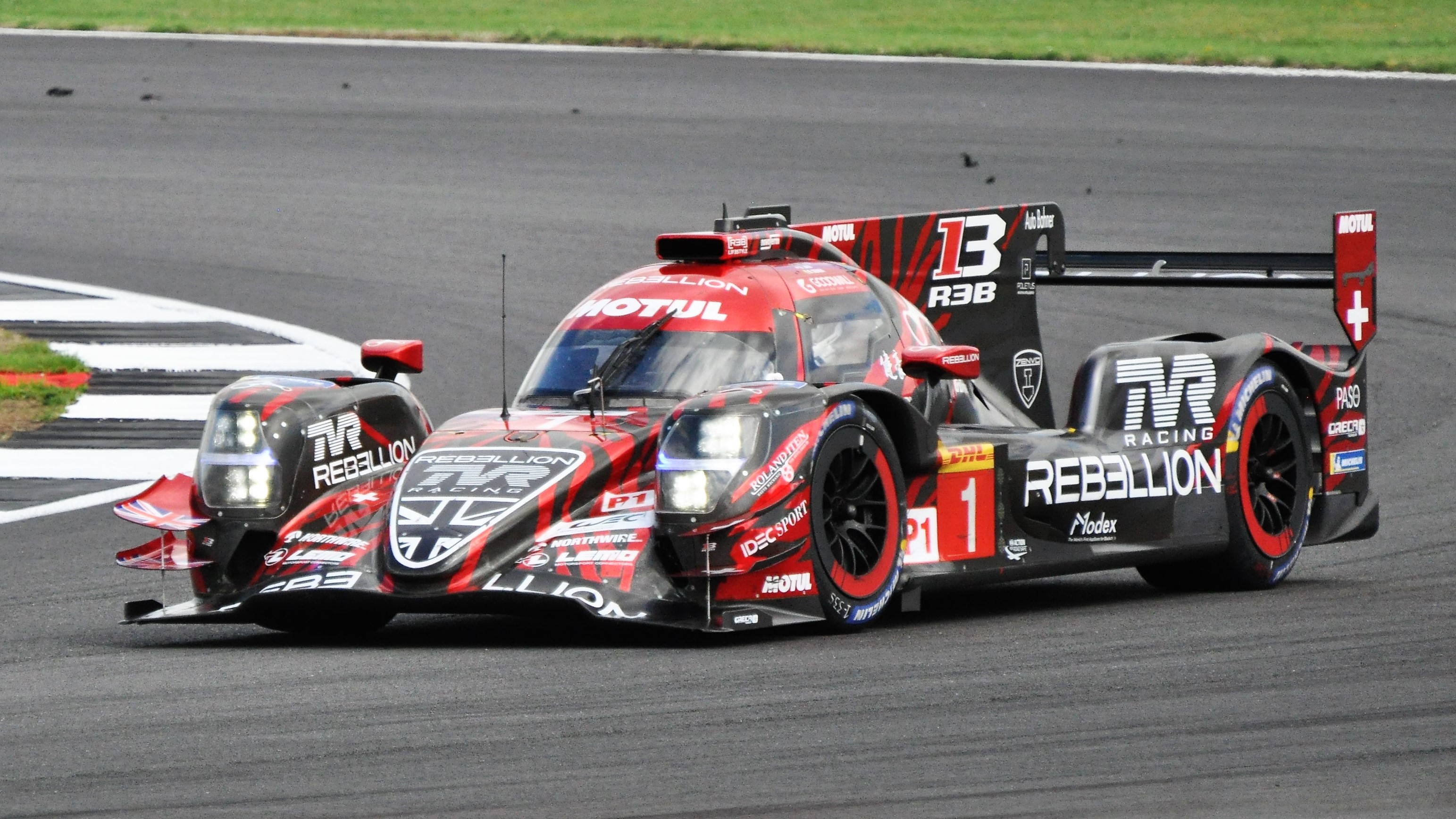 Swiss driver André Lotterer navigates Luffield corner in the number 1 works Rebellion R13 car, during the 2018 6 Hours of Silverstone race. Lotterer and his co-driver, Neel Jani, drove without third driver Bruno Senna after the latter suffered a broken ankle in a crash during practice. Despite this, Jani and Lotterer finished in second position.